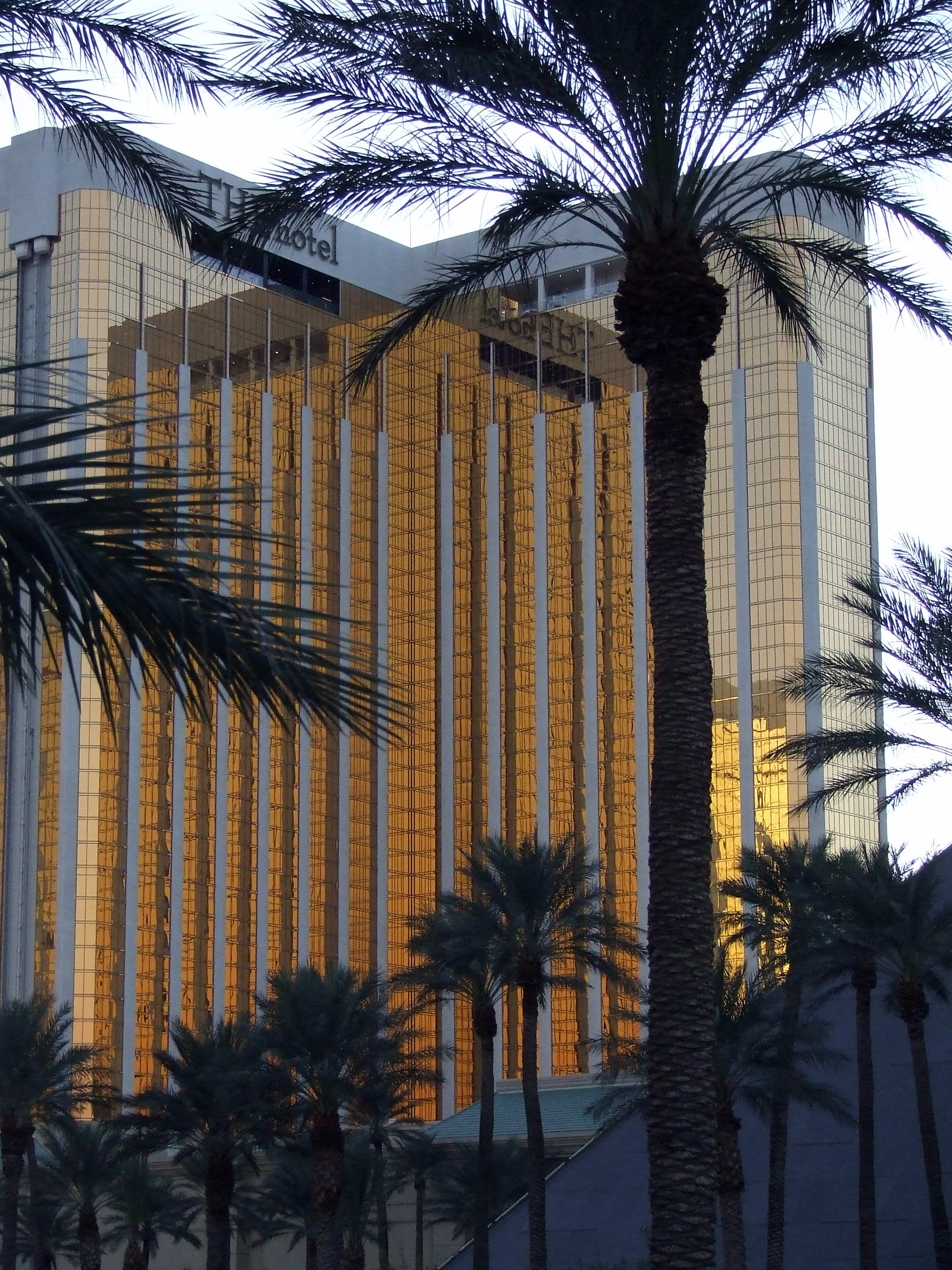 The hotel at Mandalay Bay